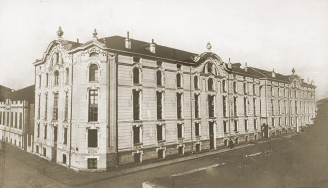 Tobacco warehouses "Dimitar Kudoglu"